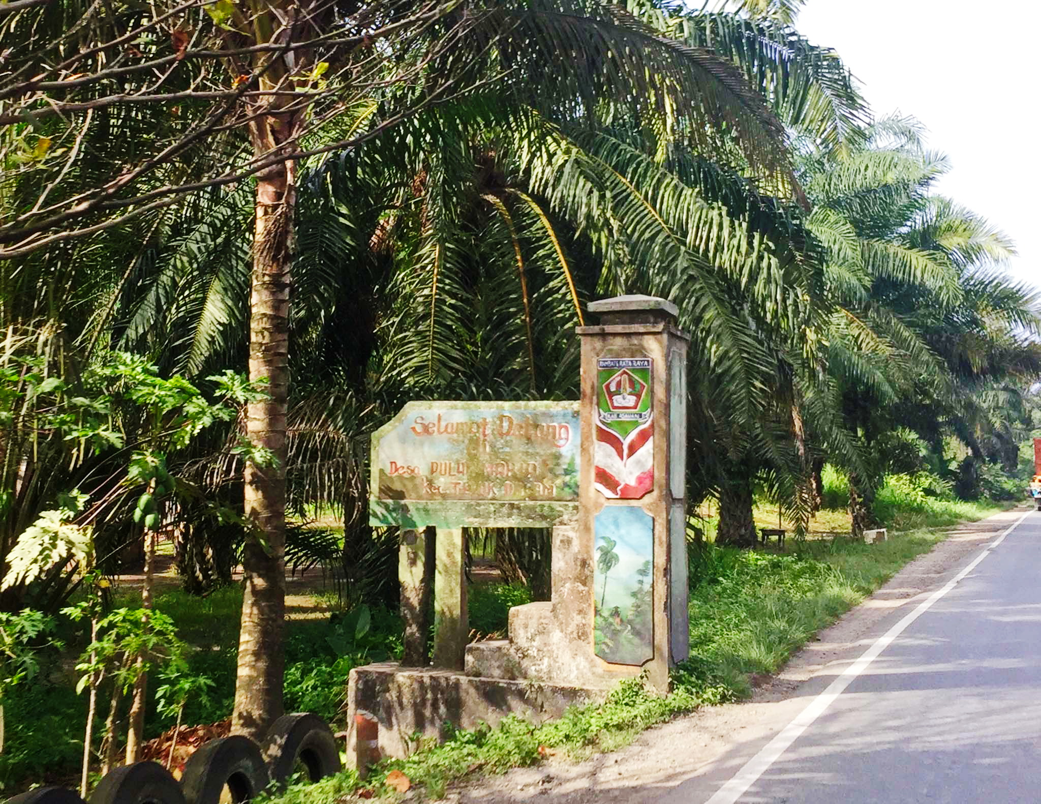 Welcome Gate to Pulau Maria, Teluk Dalam, Asahan